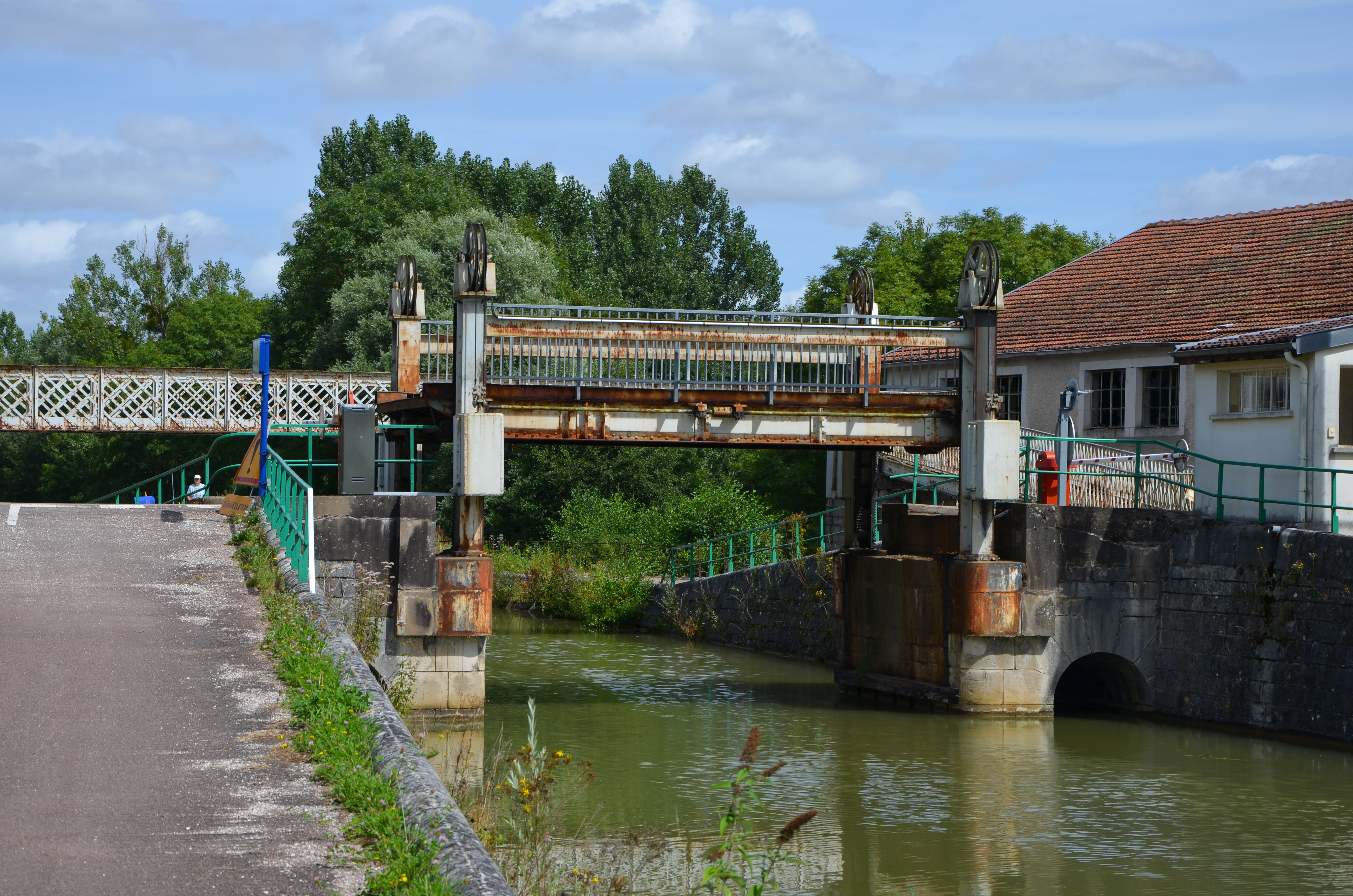 Lift bridge on the canal de la Marne à la Saône in Luzy sur Marne, Haute Marne, France